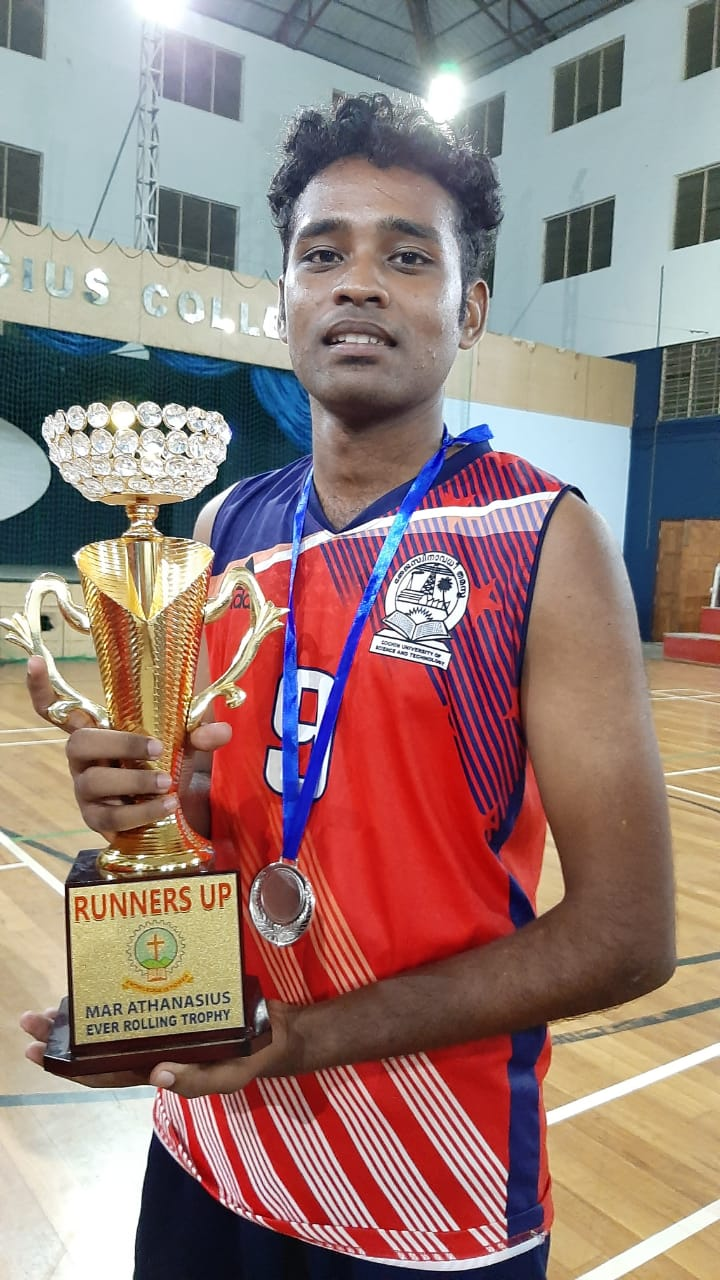 Photo of Nitheesh Shashankan who captianed the KMSME Volleyball team from 2018-2020